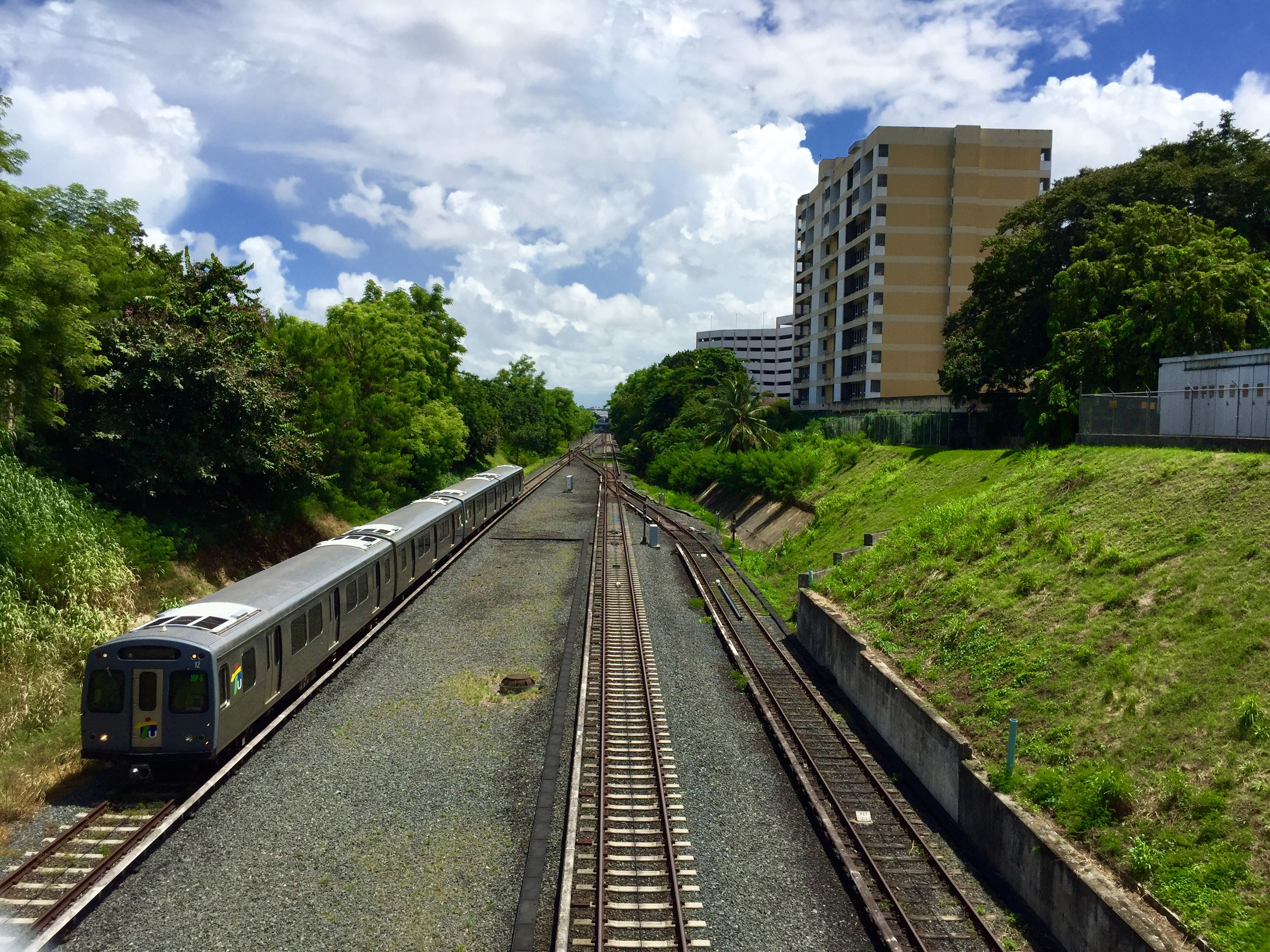 Tren Urbano @ ground-level approaching Martínez Nadal station